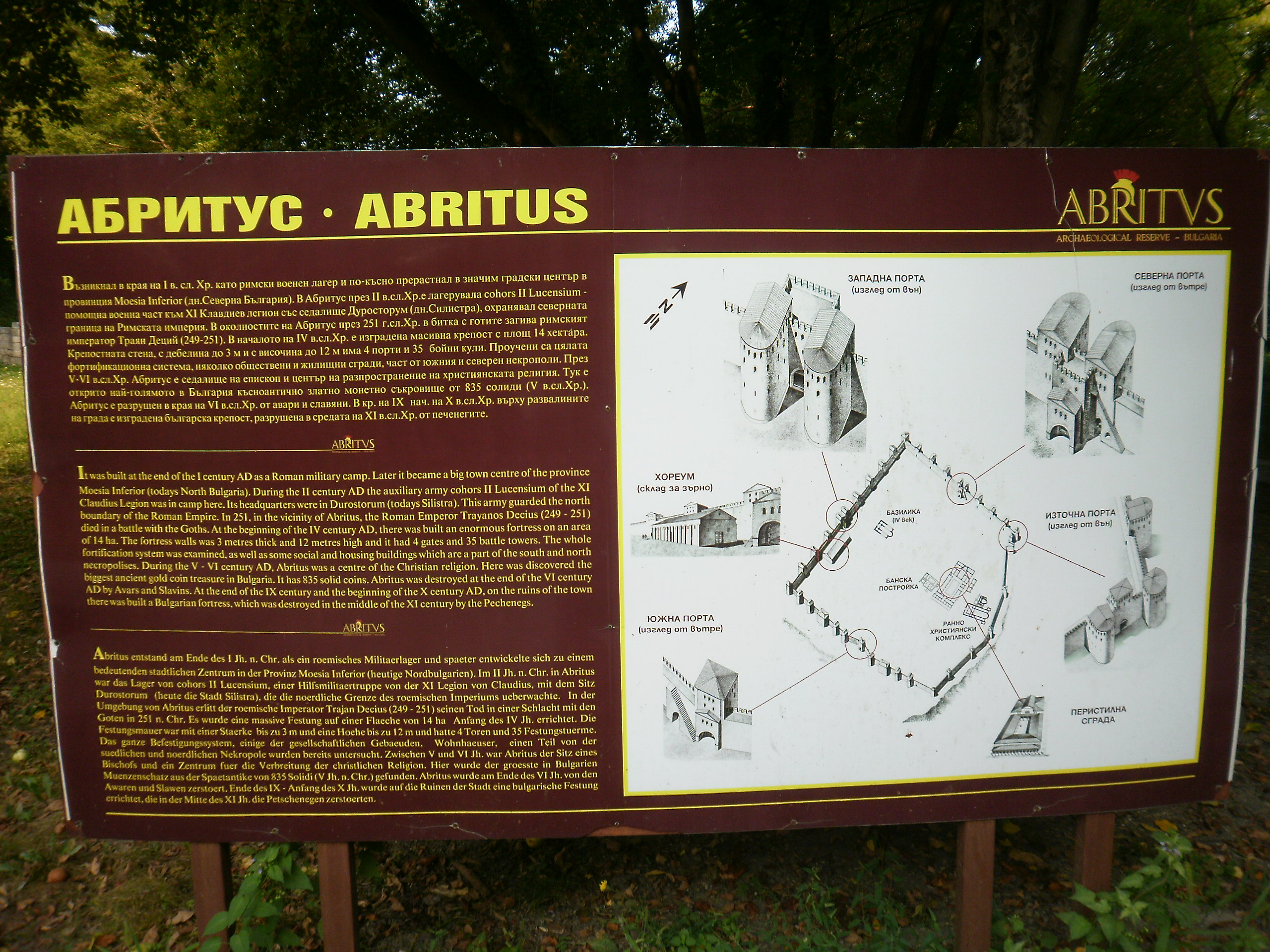 Abrittus, Bulgaria